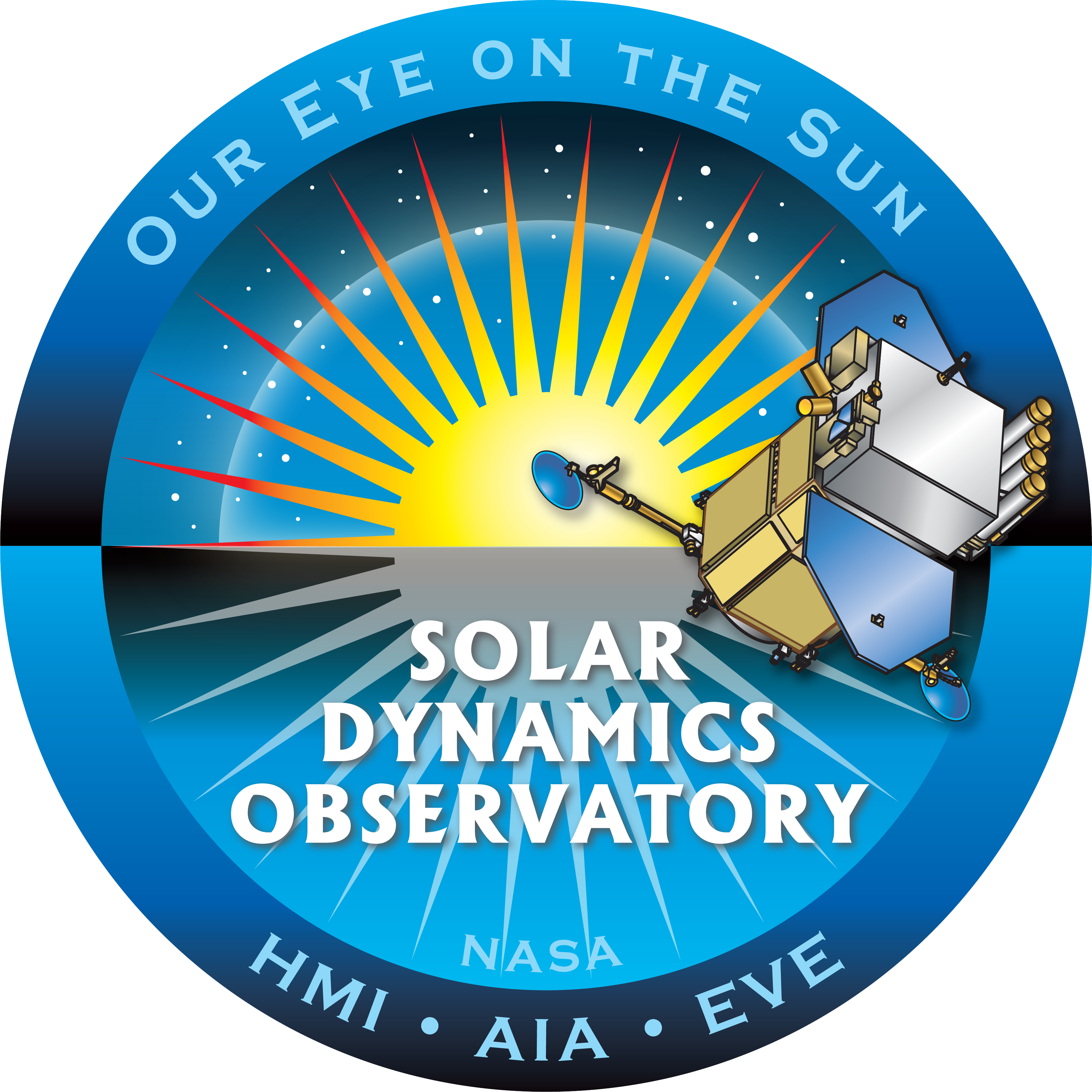 The Solar Dynamics Observatory insignia. It reads "Our eye on the sun" HMI, AIA, EVE